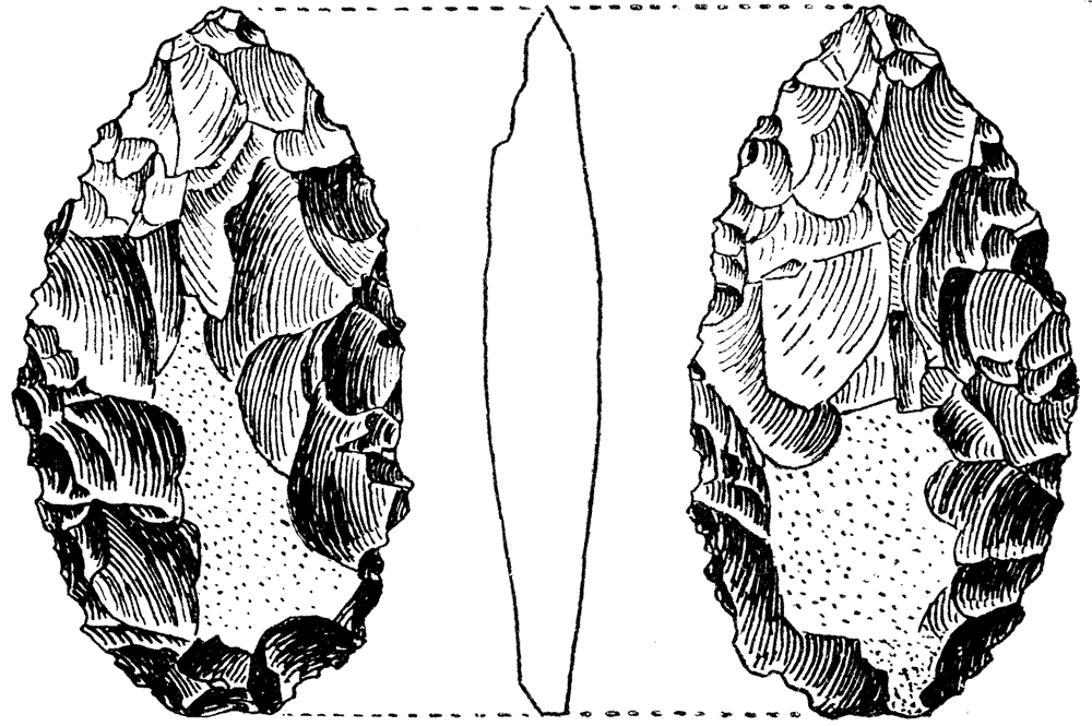 Paleolithic biface from the Middle Stone Age. Site S'baikia, Algeria (collection M. Reygasse)